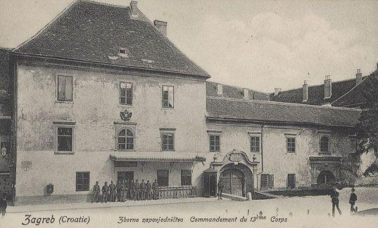 HQ of XIII army corps, Zagreb, Jesuit Square